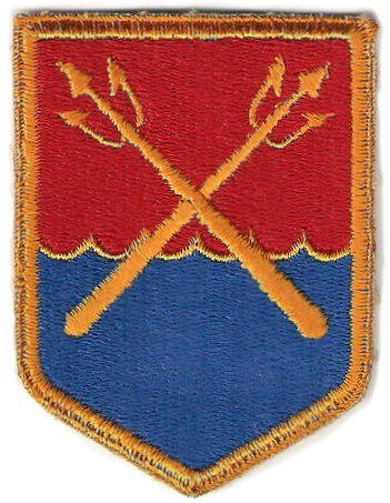 Emblem of the World War II Eastern Defense Command